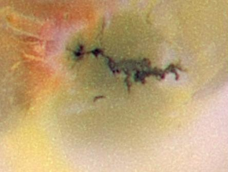 Image by the Galileo spacecraft of the Zamama volcanic center on the Jovian moon Io. North is to the top, and the image is centered at 17.4 degrees north latitude and 173 degrees west longitude. This image was taken in July 1999 at a distance of about 130,000 kilometers (81,000 miles) and has a resolution of 1.3 kilometers or 0.8 miles per picture element.